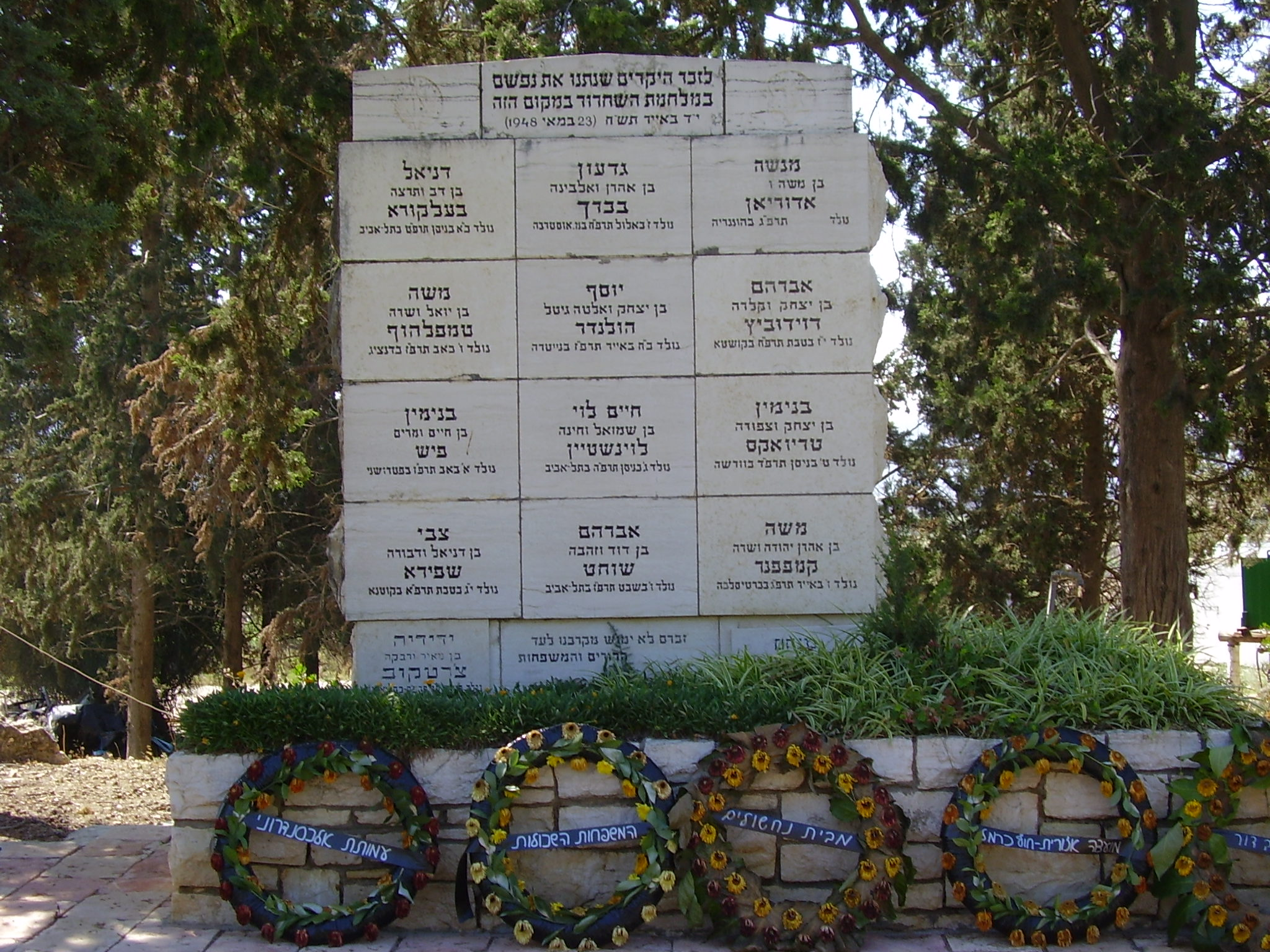 Alexandroni Brigade memorial in Tantura